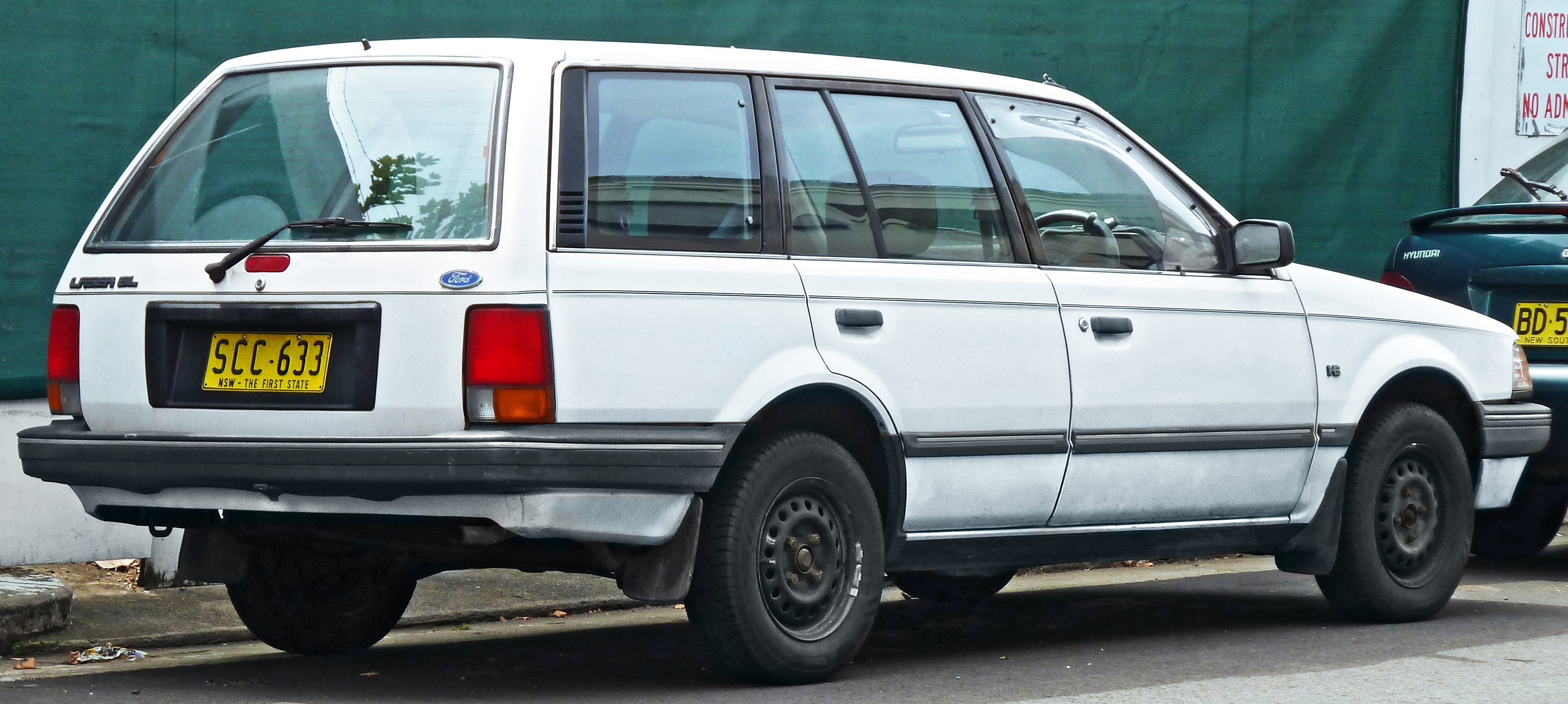 1989 Ford Laser (KE) GL station wagon. Photographed in Woolloomooloo, New South Wales, Australia.